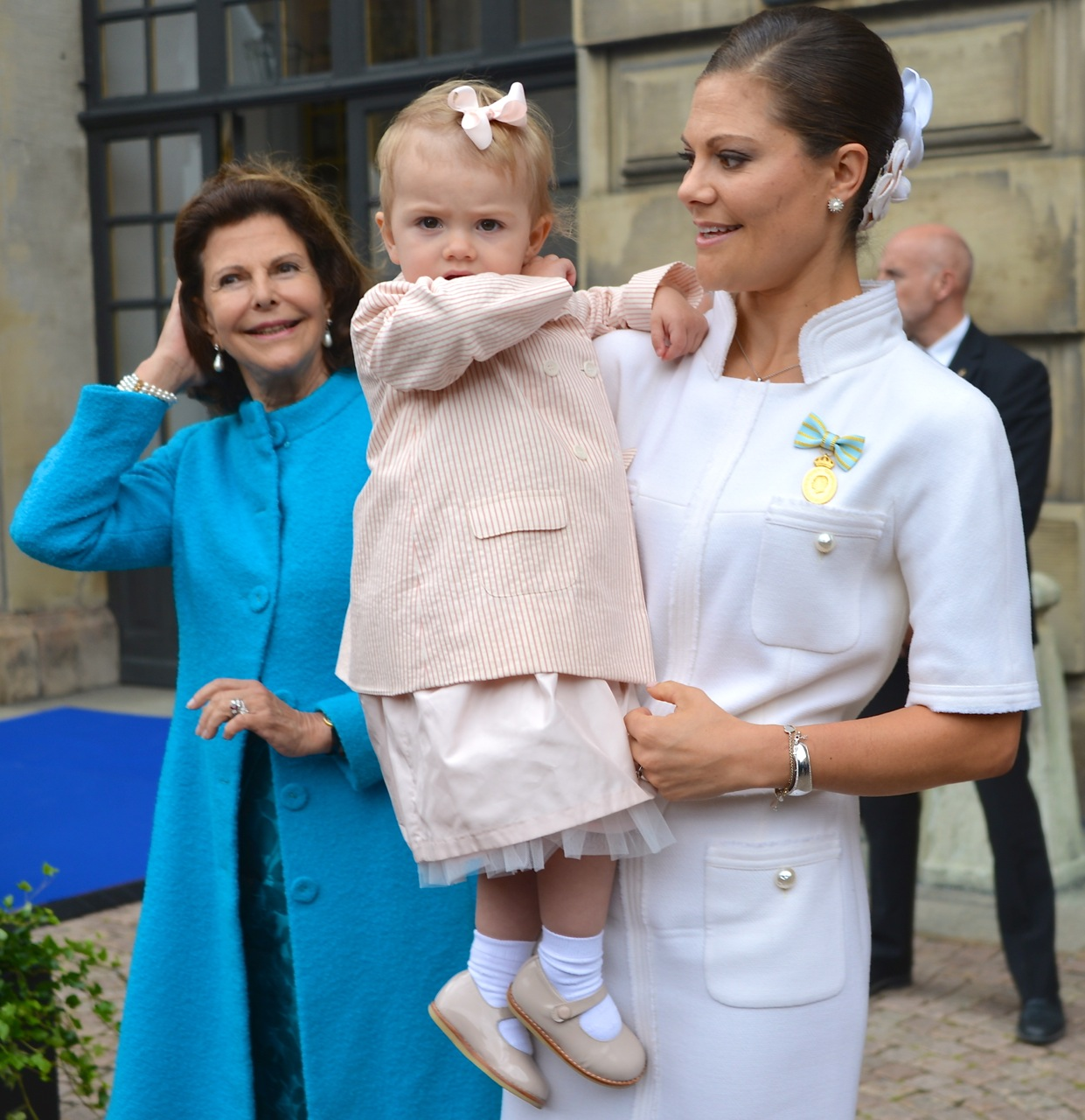 Three generations of the Swedish Royal Family Bernadotte at the castle in Stockholm 2013.